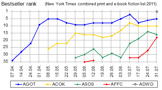 New York Times Best Sellers List - Weekly Graphic for A Song of Ice and Fire from April 7, 2011 (airing of the Game of Thrones pilot episode) through July 31, 2011 (publication of A Dance With Dragons).